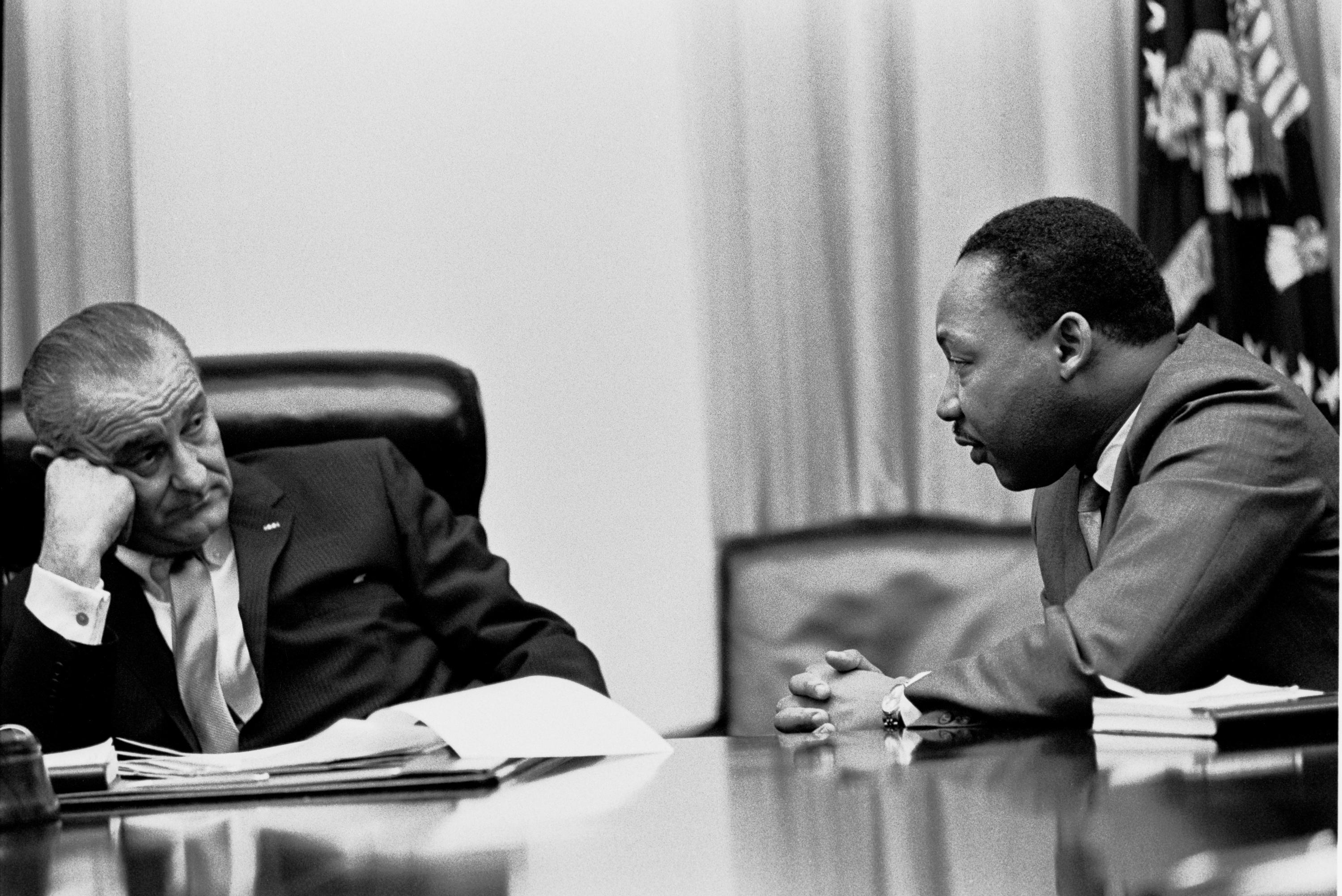 President Lyndon B. Johnson meets with Martin Luther King, Jr. in the White House Cabinet Room